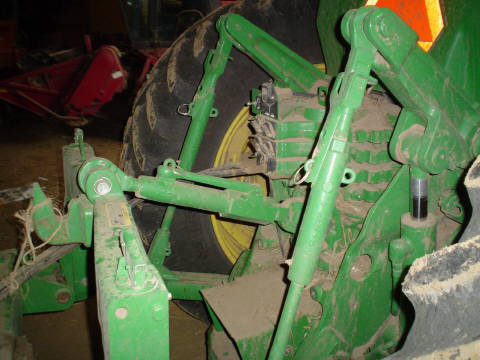 Shown on this page is the three-point hitch of a John Deere 8110 tractor. When this photo was taken, a planter was attached to the three-point hitch. The two outer arms provide lifting and lowering capacity through the tractor's hydraulic system. The inner arm provides stabalization. – This is a photo that I had taken in May of 2004. I had taken this photo at my parent's farm.